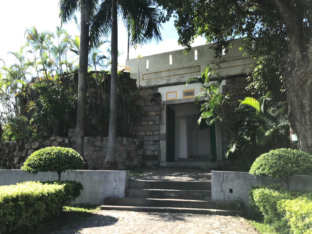 The front gate of Mong-Há Fort